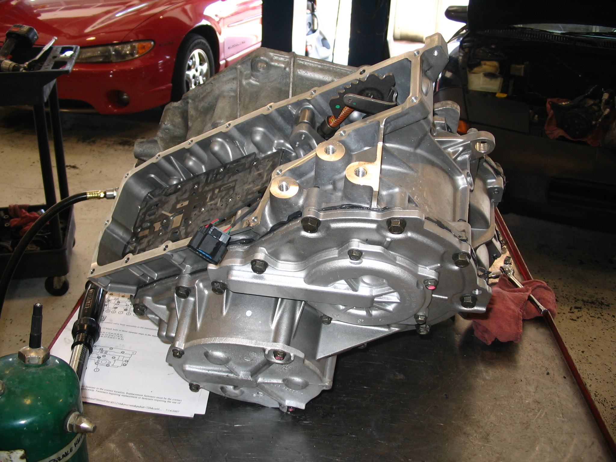 This photograph was taken by myself, User:EMcCutchan.